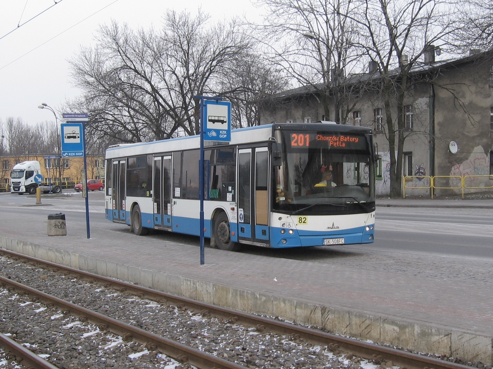 The bus 201 of KZK GOP, service by Kłosok in Bytom-Łagiewniki, Poland, bus stop Łagiewniki Krzyżowa.